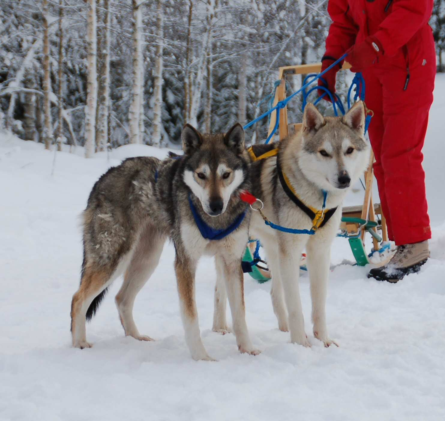 Susi at Blustag and Dingo at Blustag. Working foundation dogs for the Tamaskan breed from Finland